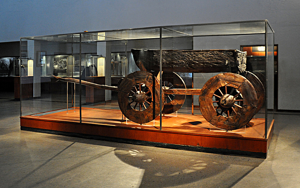 The Oseberg burial mound contained numerous grave goods and two female human skeletons. This richly carved wooden cart was found during the 1904-1905 excavations.